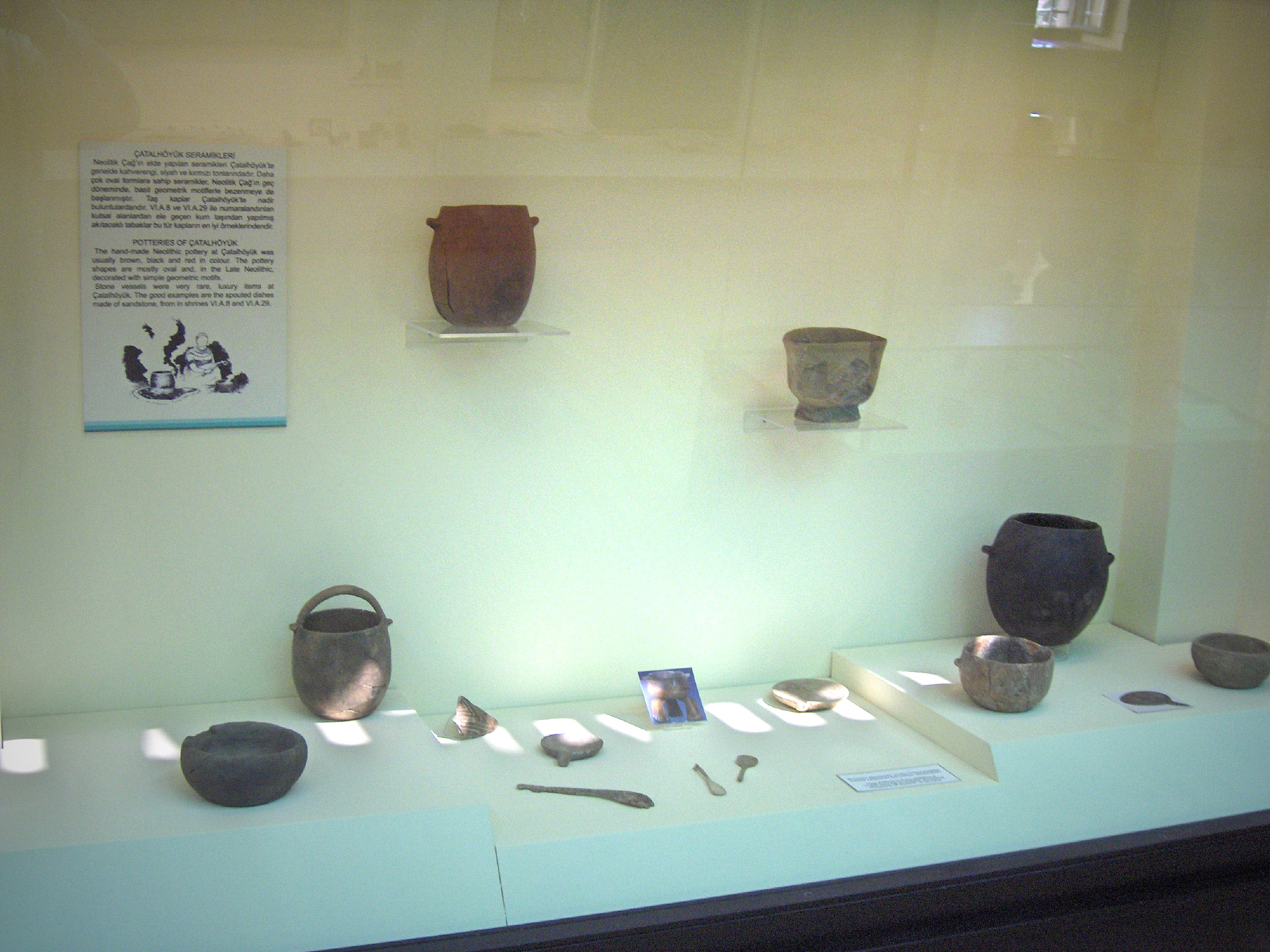 Hand-made Neolithic pottery; found at Çatalhöyük; 6th millennium BC; Museum of Anatolian Civilizations, Ankara, Turkey